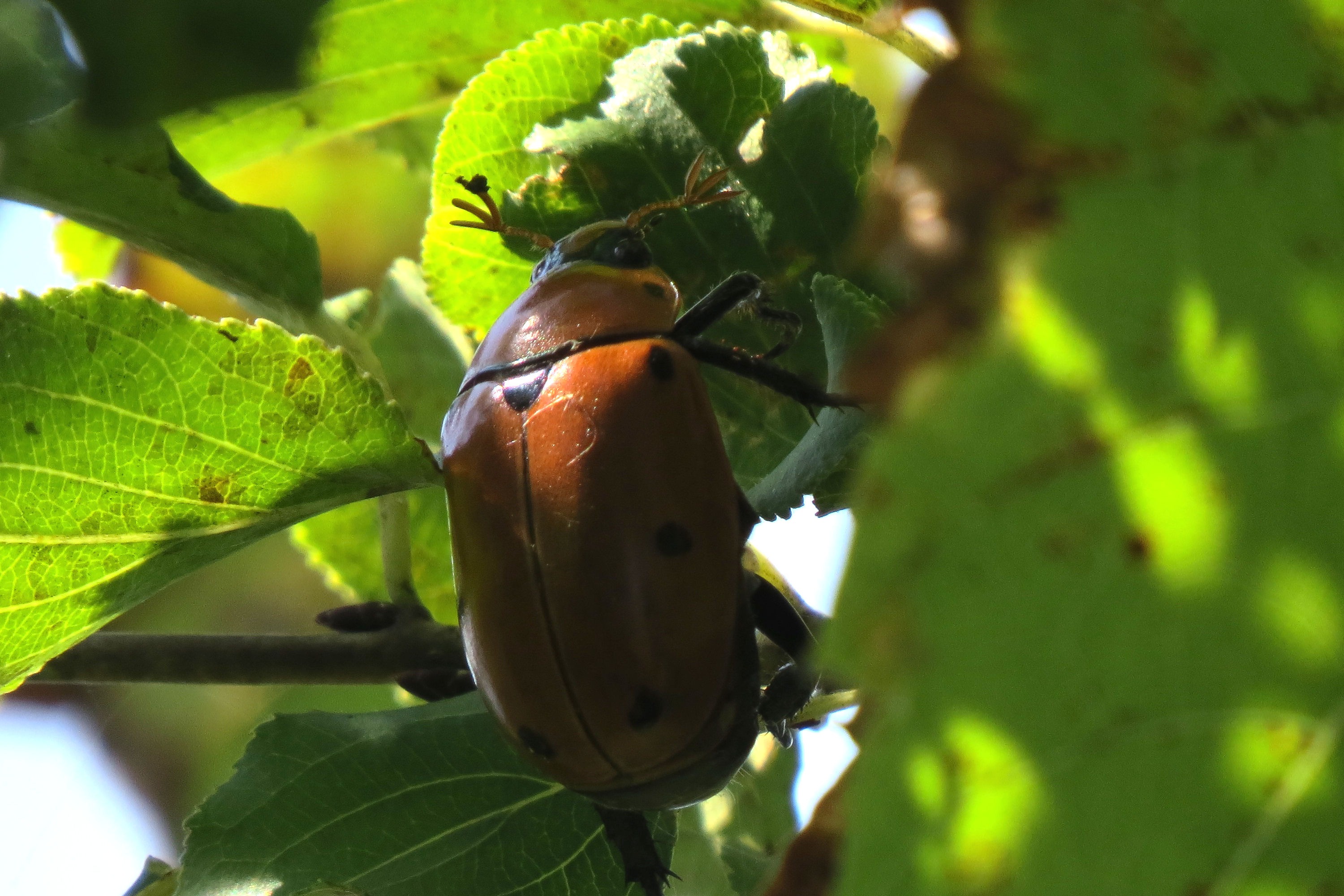 Grapevine Beetle (Pelidnota punctata), Shirleys Bay, Ottawa, Ontario, Canada